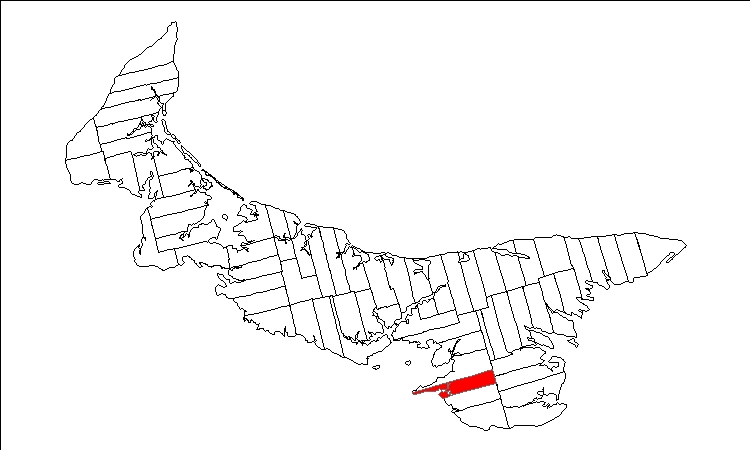 Public domain map of Prince Edward Island created by User:Plasma east with data courtesy of Geogratis, modified to show townships. Released under GFDL (self).